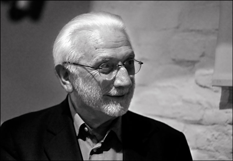 Lucien_Clergue,_Kunsthaus_Vienna,_2007. There was a Clergue retrospective on that place, in 2007.